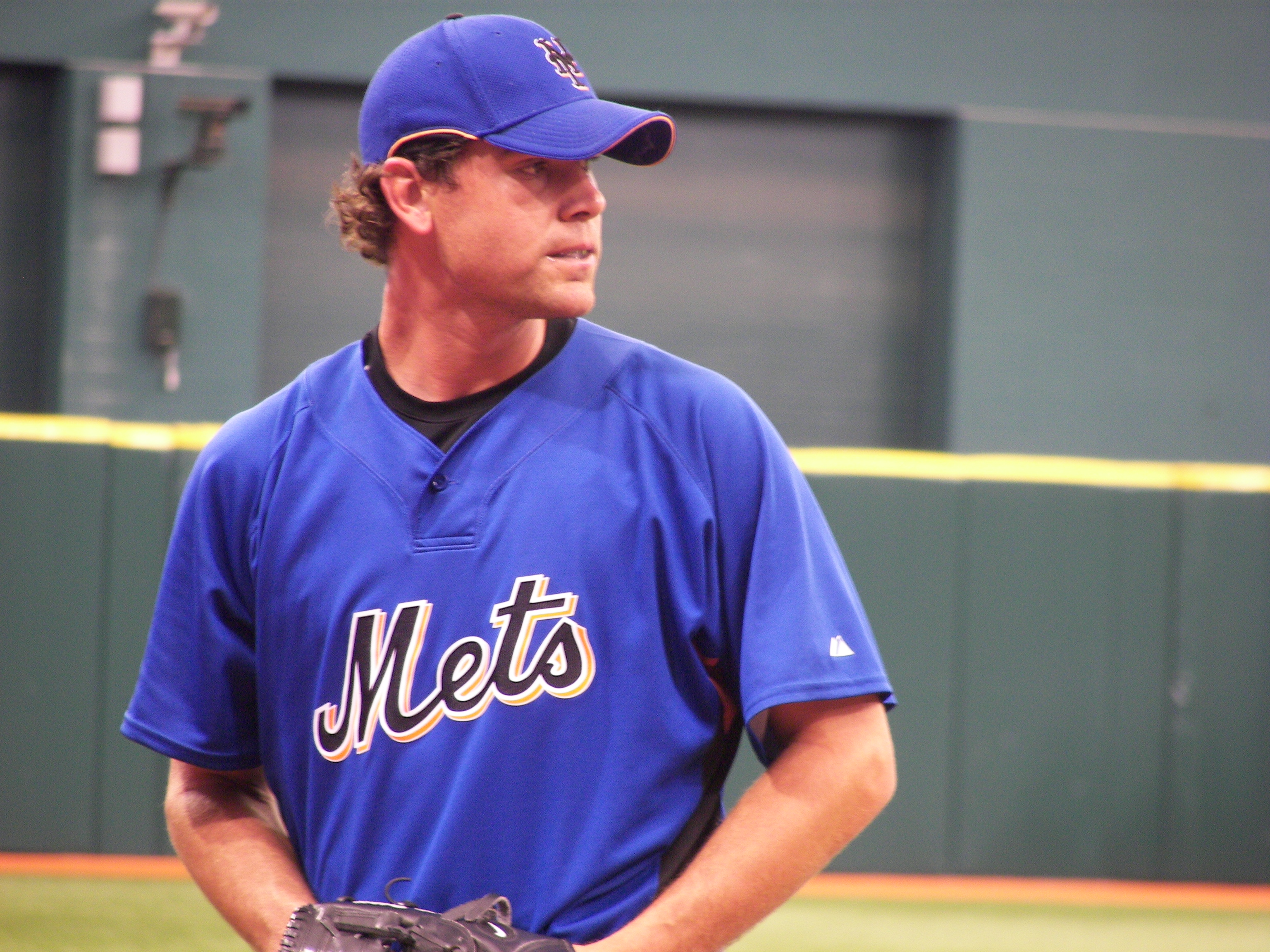 New York Mets pitcher Michael Pelfrey before a Mets/Devil Rays spring training game at Tropicana Field in St. Petersburg, Florida.